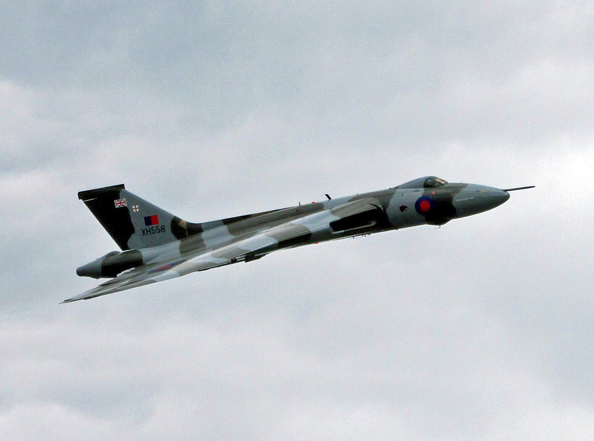 Avro Vulcan B.2 XH558 displaying over its birthplace (in 1960) at Woodford Aerodrome in 2015